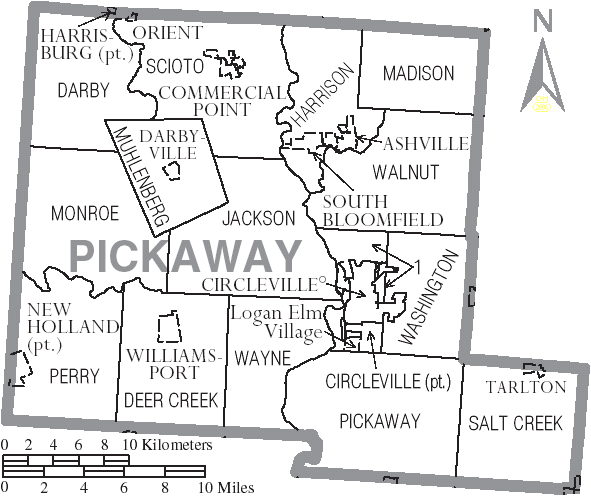 Map of Pickaway County, Ohio, United States with township and municipal boundaries